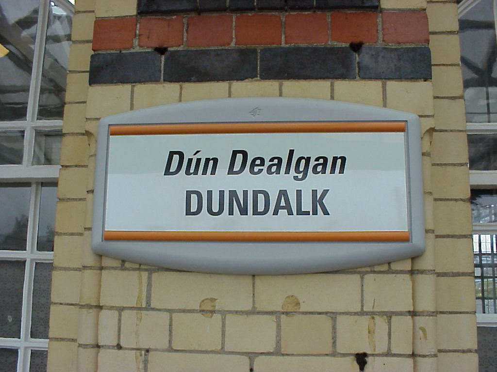 Sign at Dundalk railway station